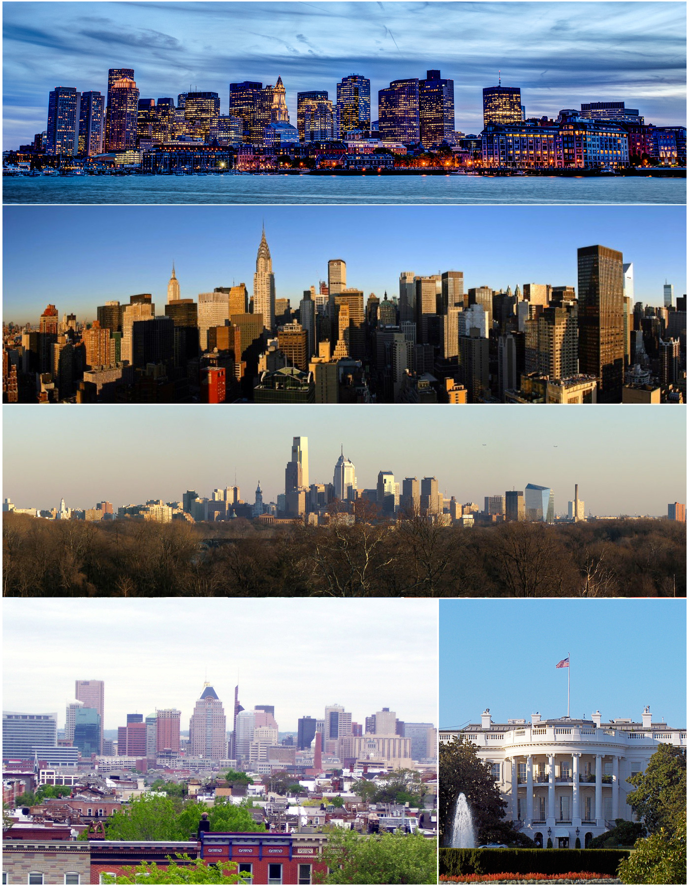 Images of the major cities of the Northeast Megalopolis (the skylines of Boston, New York, Philadelphia, Baltimore, and a picture of the White House).